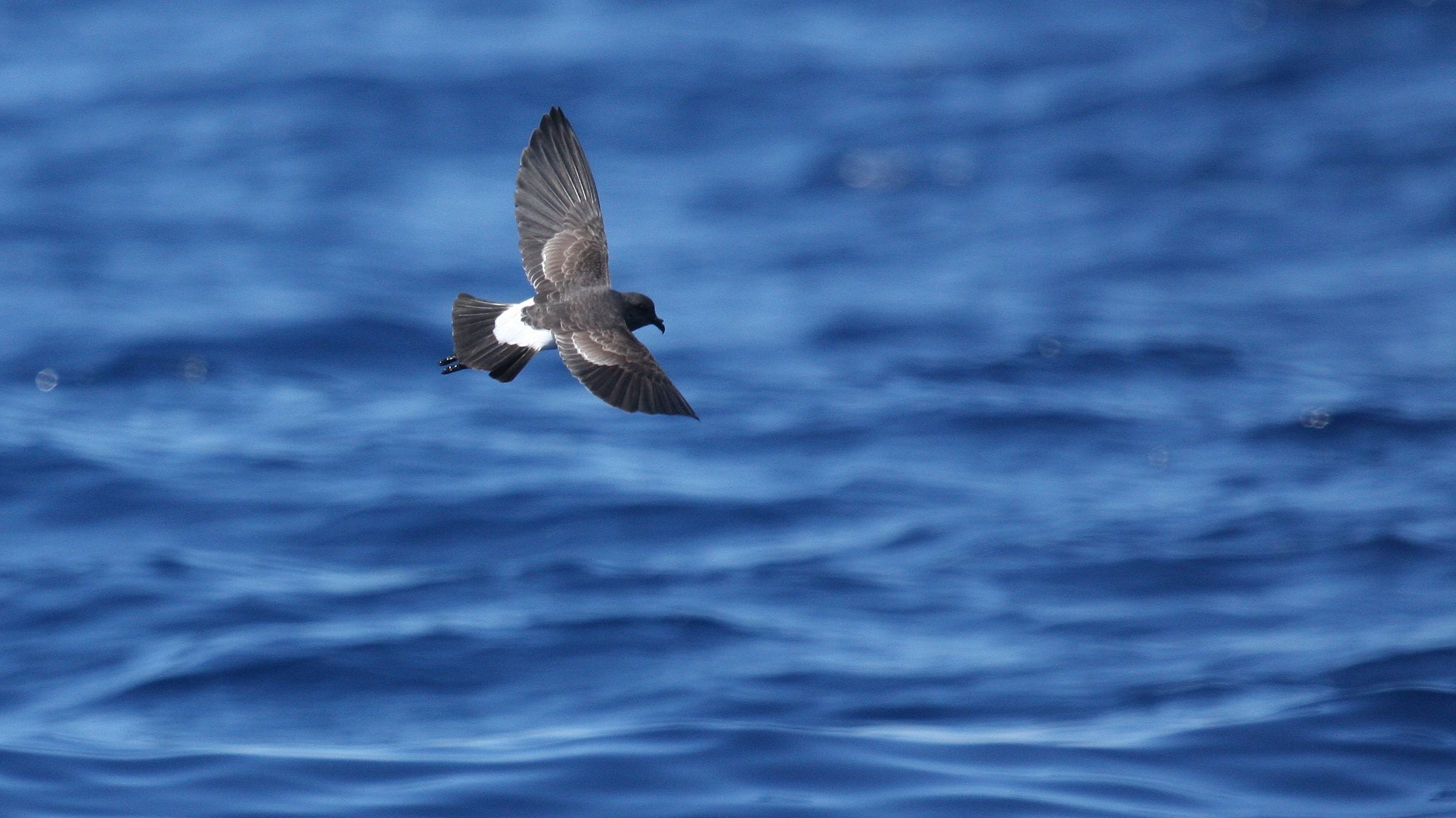 Black-bellied Storm Petrel (Fregetta tropica), cropped from original